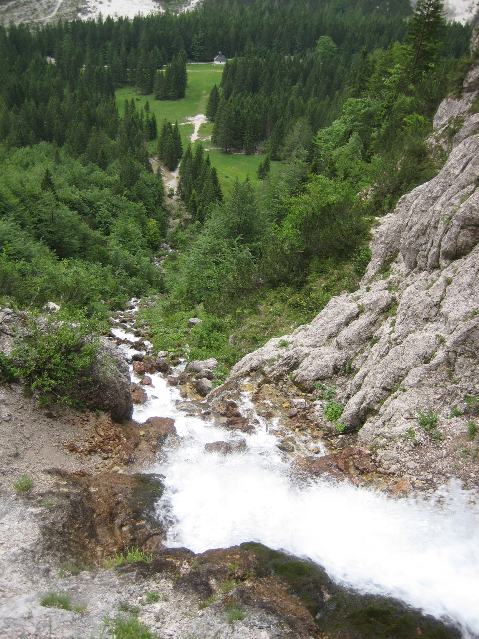 Nadiža waterfall and stream in Tamar, Slovenia